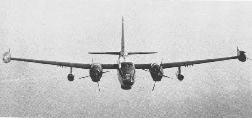 A U.S. Navy Lockheed P2V-5F Neptune (after 1962 P-2E) flying on jets only in 1961.